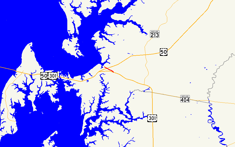 Map of Maryland Route 456